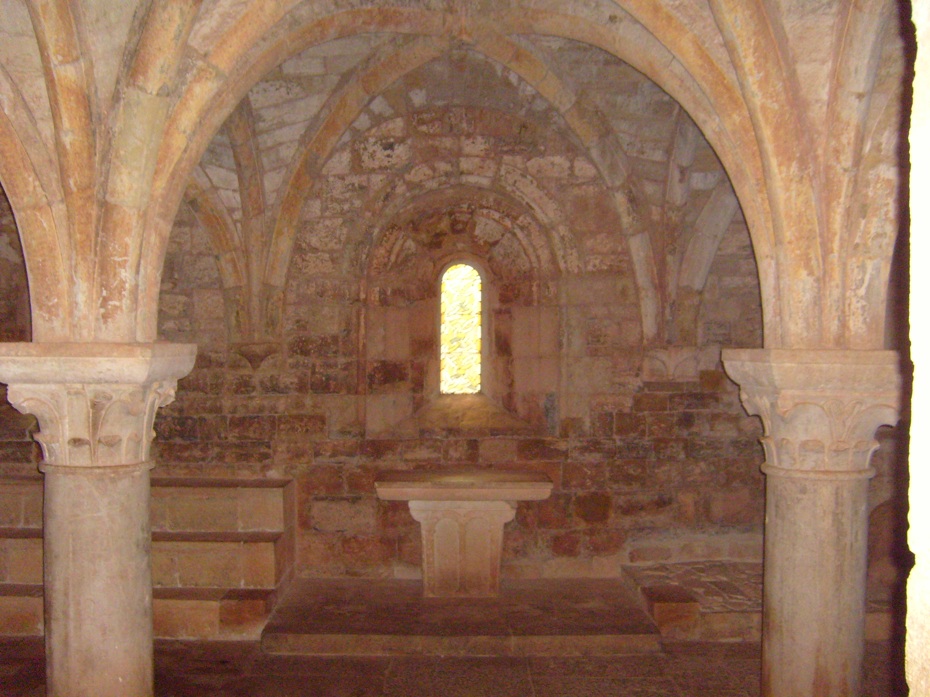 Chapter House of Le Thoronet Abbey, Provence, France